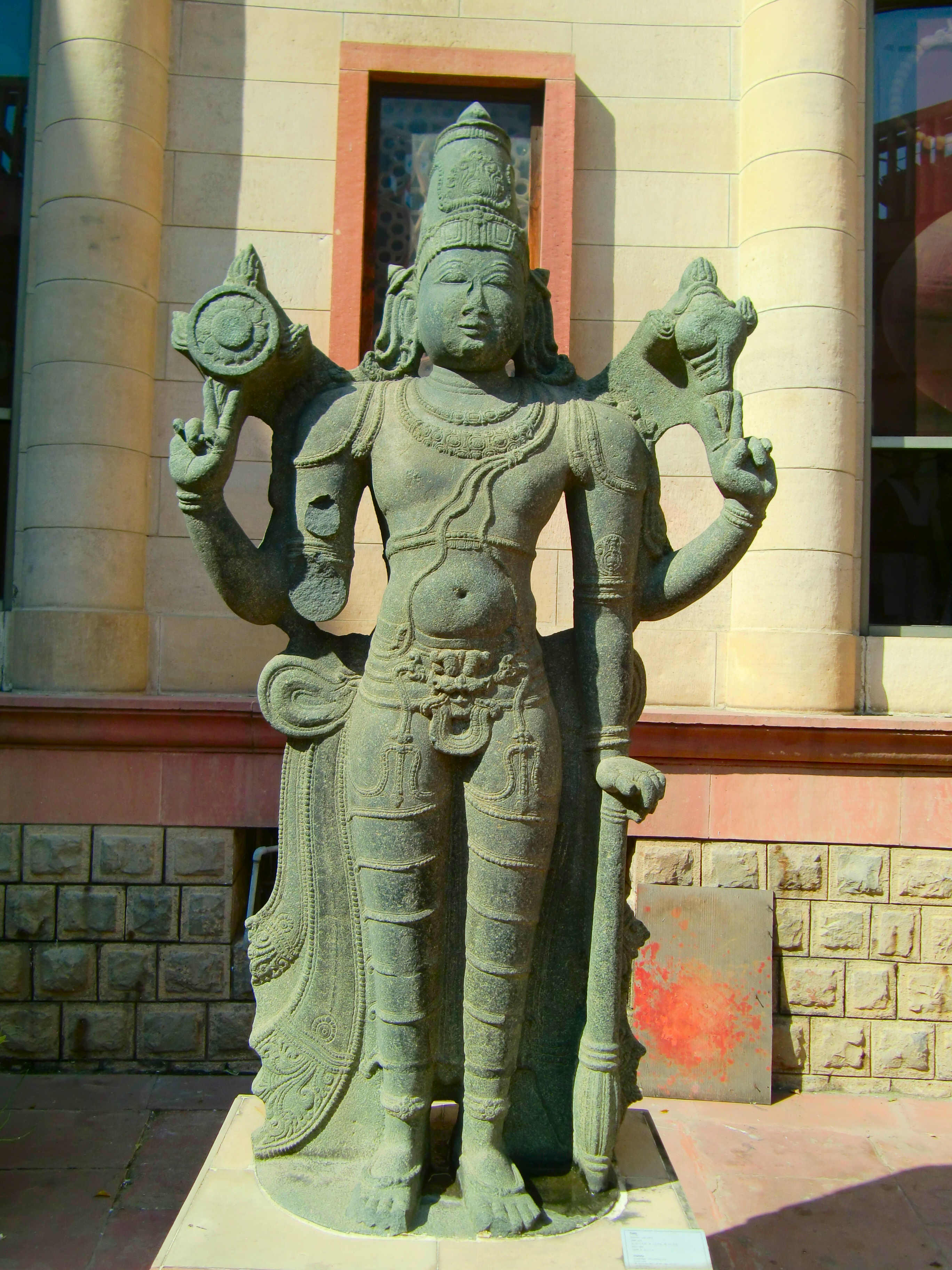 Vishunu , court of National Museum, INDIA